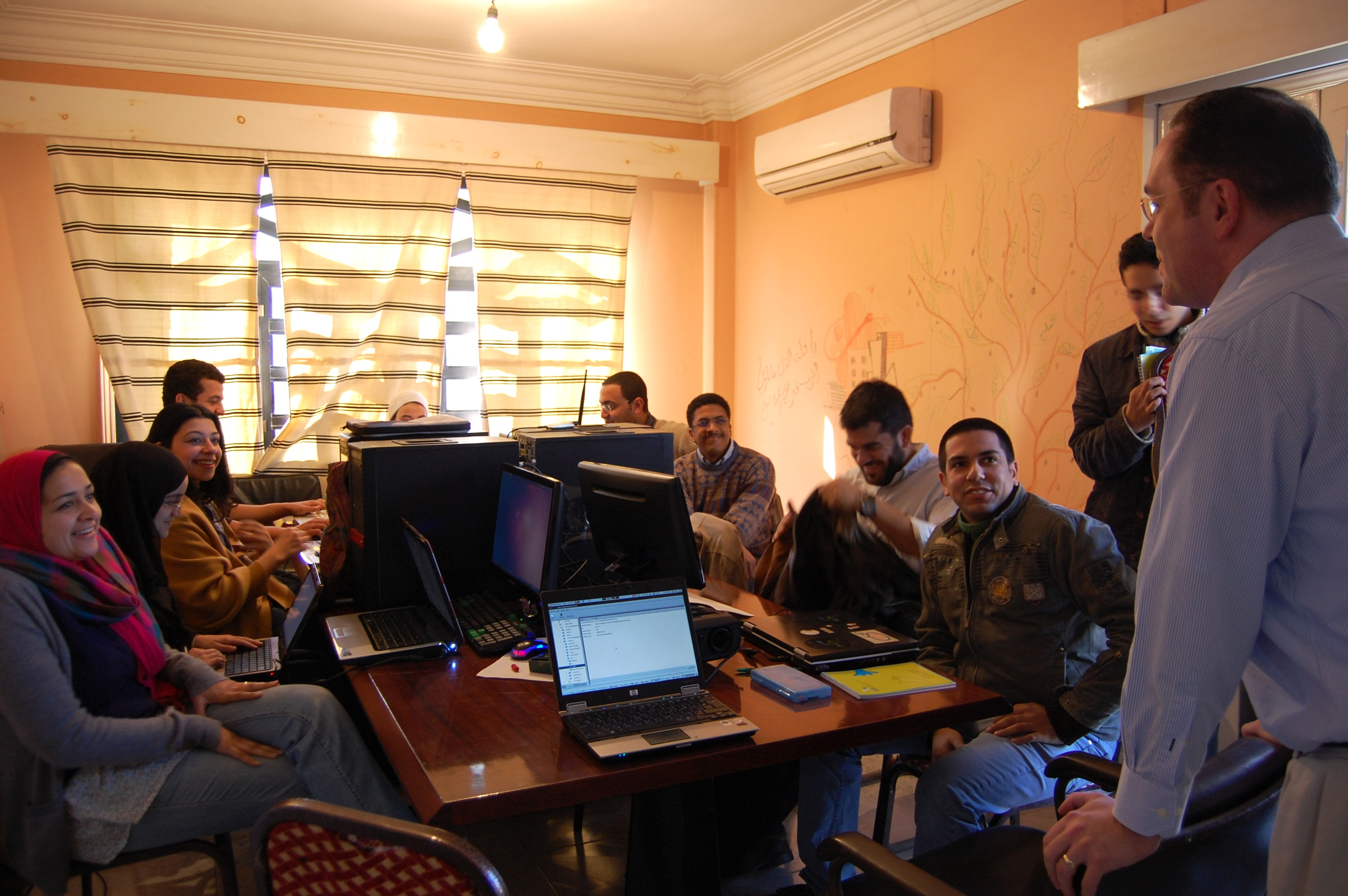 First Campus Ambassadors training in Cairo; conducted at the premises of ADEF (Arab Digital Expression Foundation) in the neighbourhood of Moqattam in Cairo.